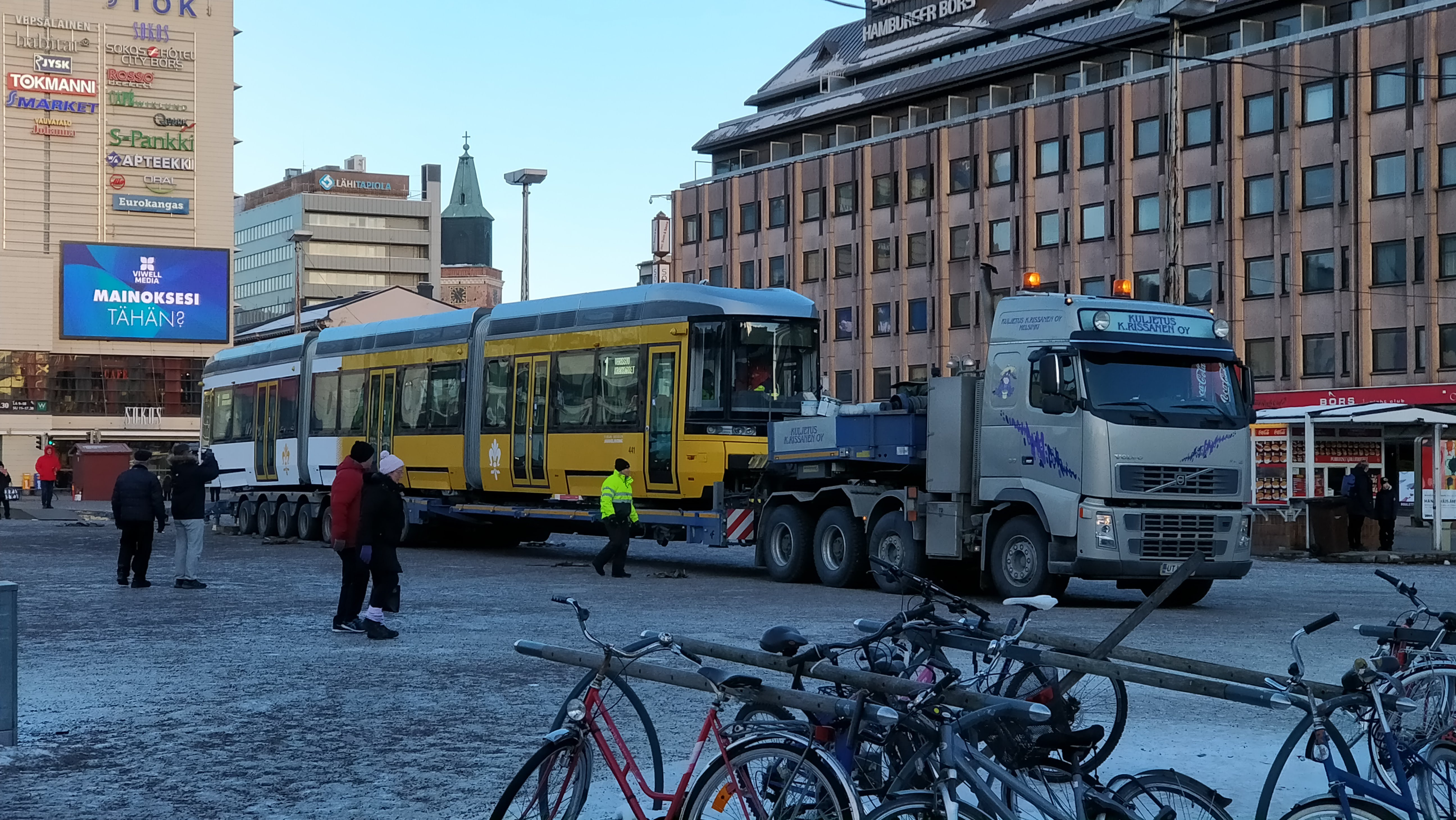 A Transtech ForCity Smart Artic tram was being unloaded at the Turku market square on the 25th of February 2018.